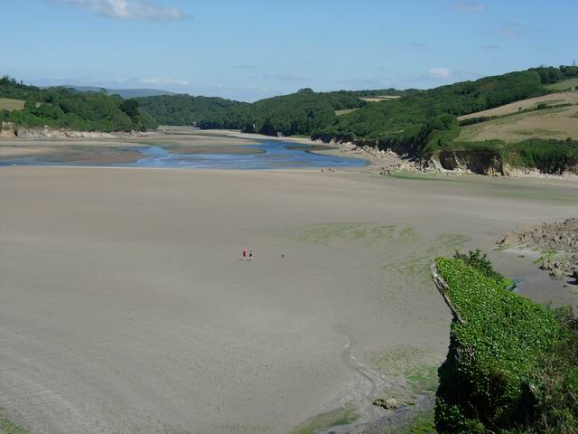 Low tide on the Erme... ...is the time to cross it on the coast path - takes a bit of wading but perfectly do-able, very long diversion at high tide - so much so it is likely to be low tide by the time you've done it.